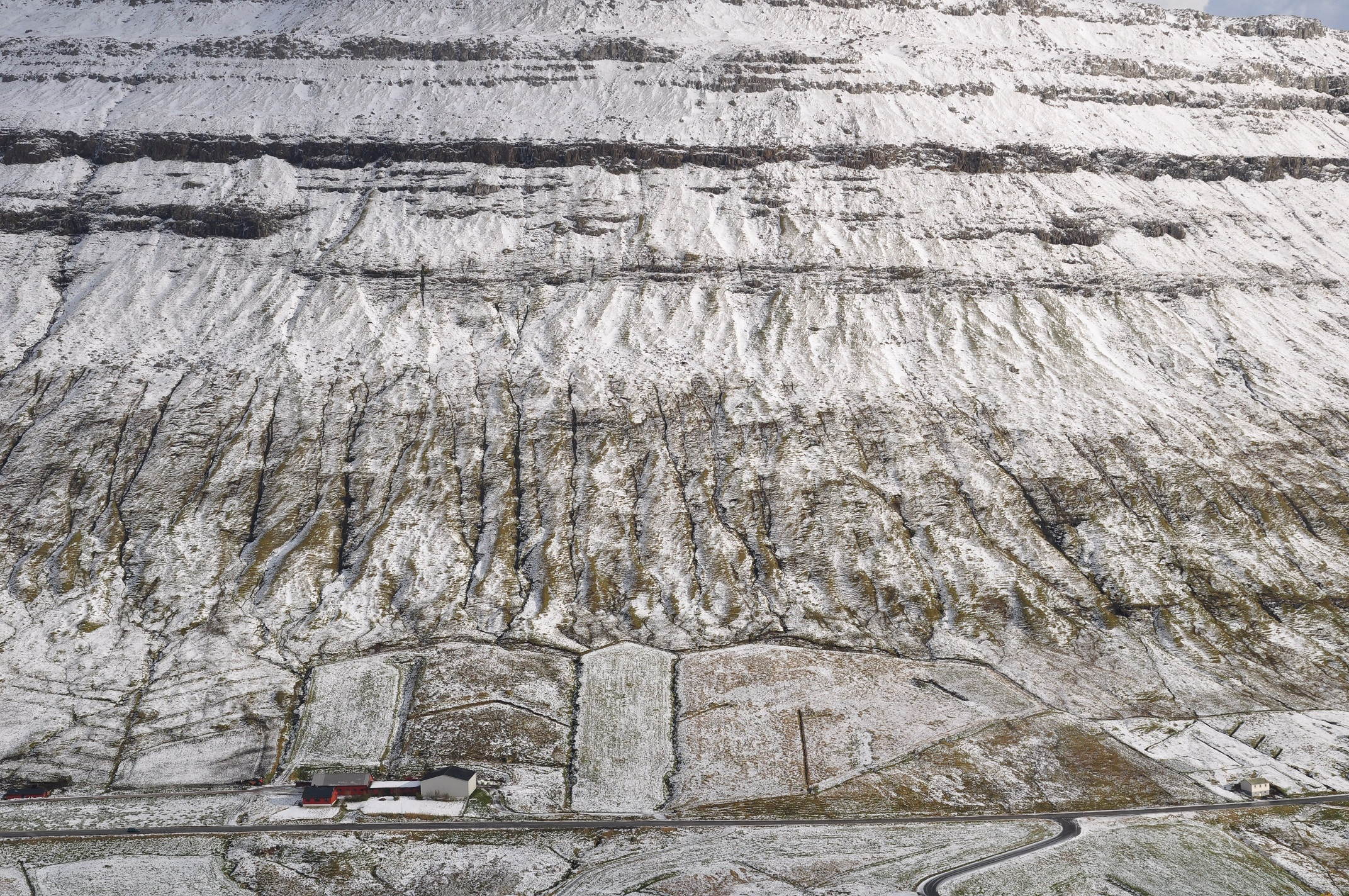 A farm at the foot of a steep hillside in Oyrareingir, Streymoy, Faroe Islands.